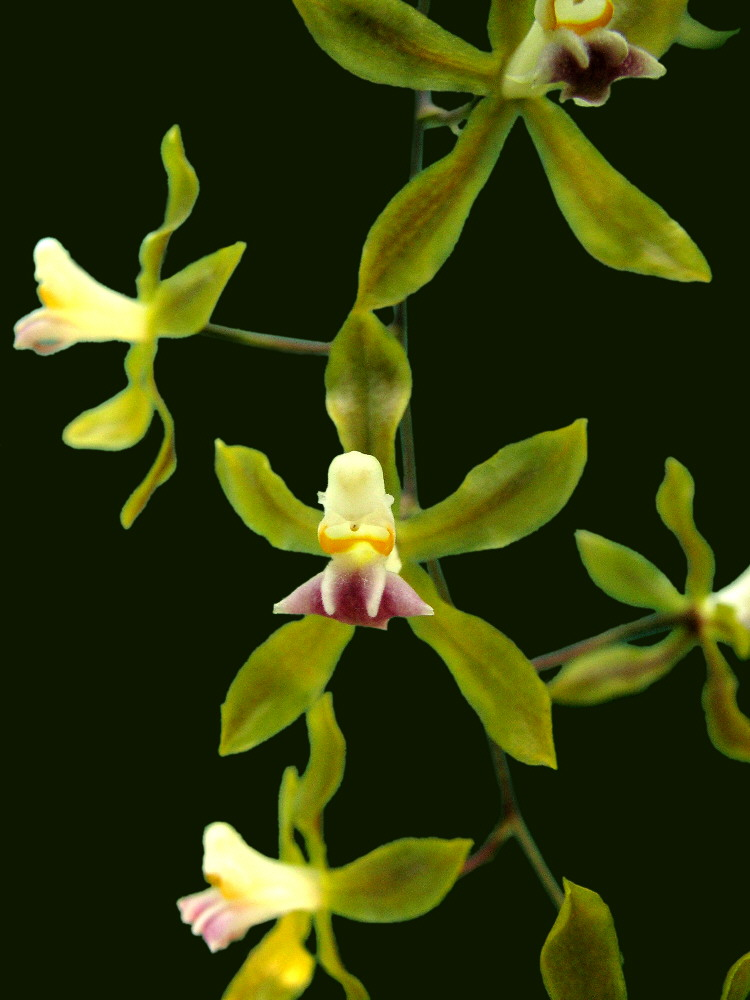 Binotia messmeriana